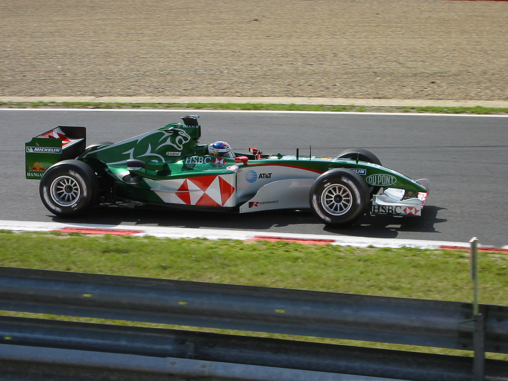 Christian Klien driving for Jaguar Racing at the 2004 Belgian Grand Prix.